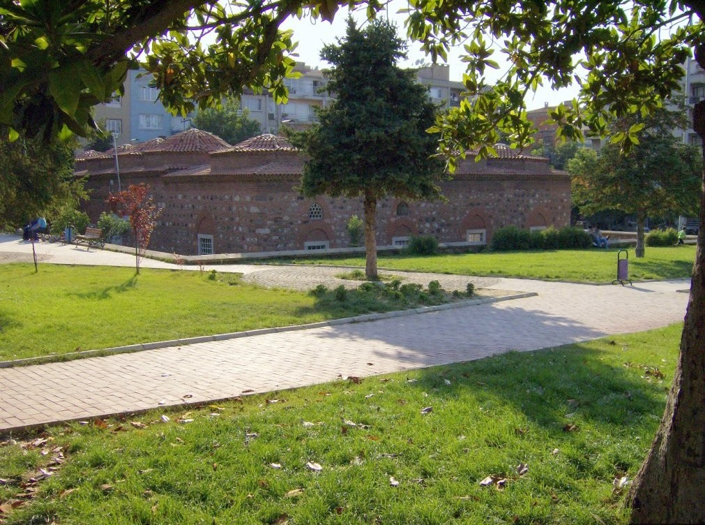 16th century hospice (Dar al-Shifa, Darüşşifa) and mental hospital (bimaristan) built in Manisa, Turkey, by Ayşe Hafsa Sultan, wife of the Ottoman sultan Selim I and mother of Süleyman the Magnificent.